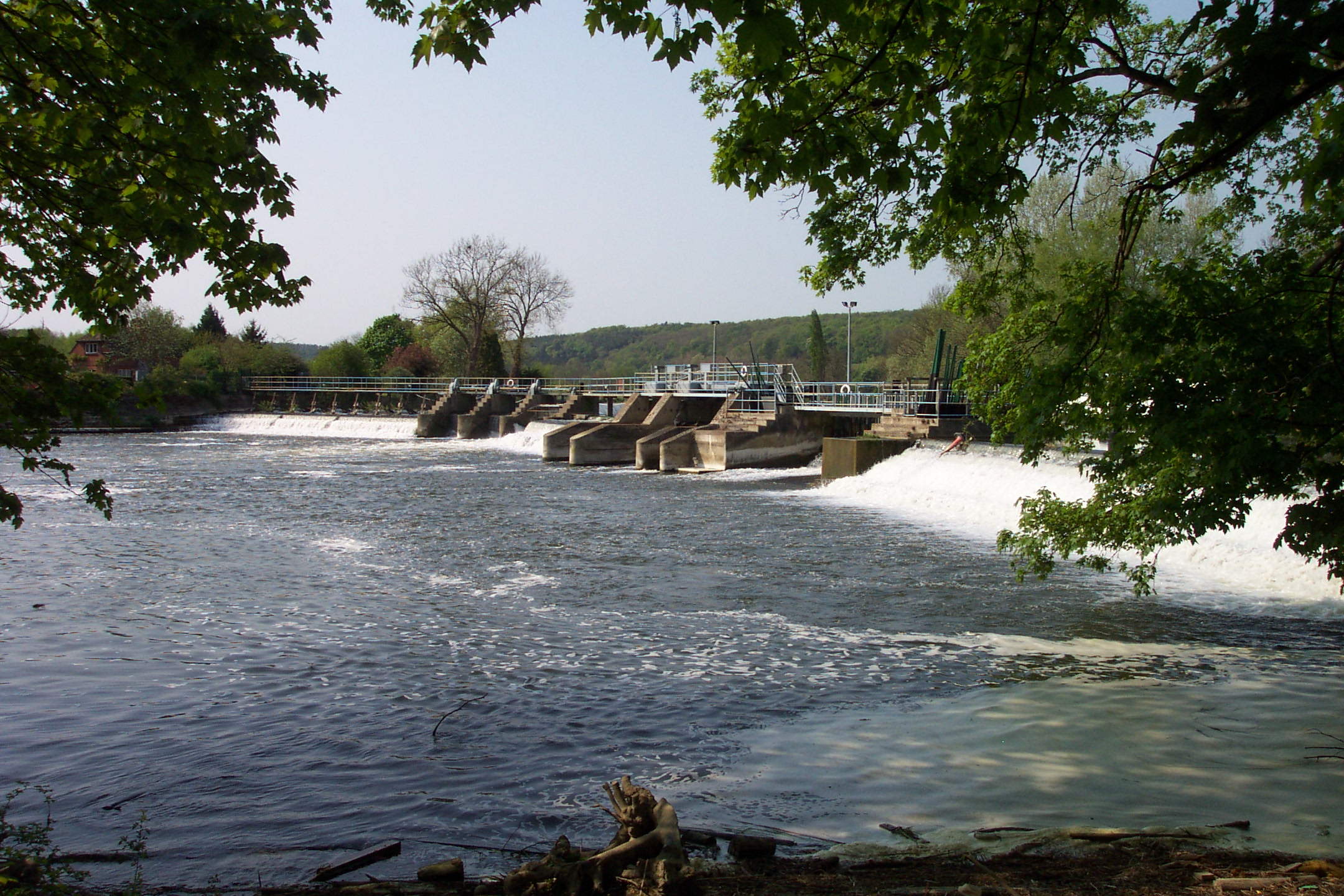 The weir across the River Thames at Mapledurham Lock, Oxfordshire, England. Viewed from the Mapledurham side of the river. For more information, see Mapledurham Lock.